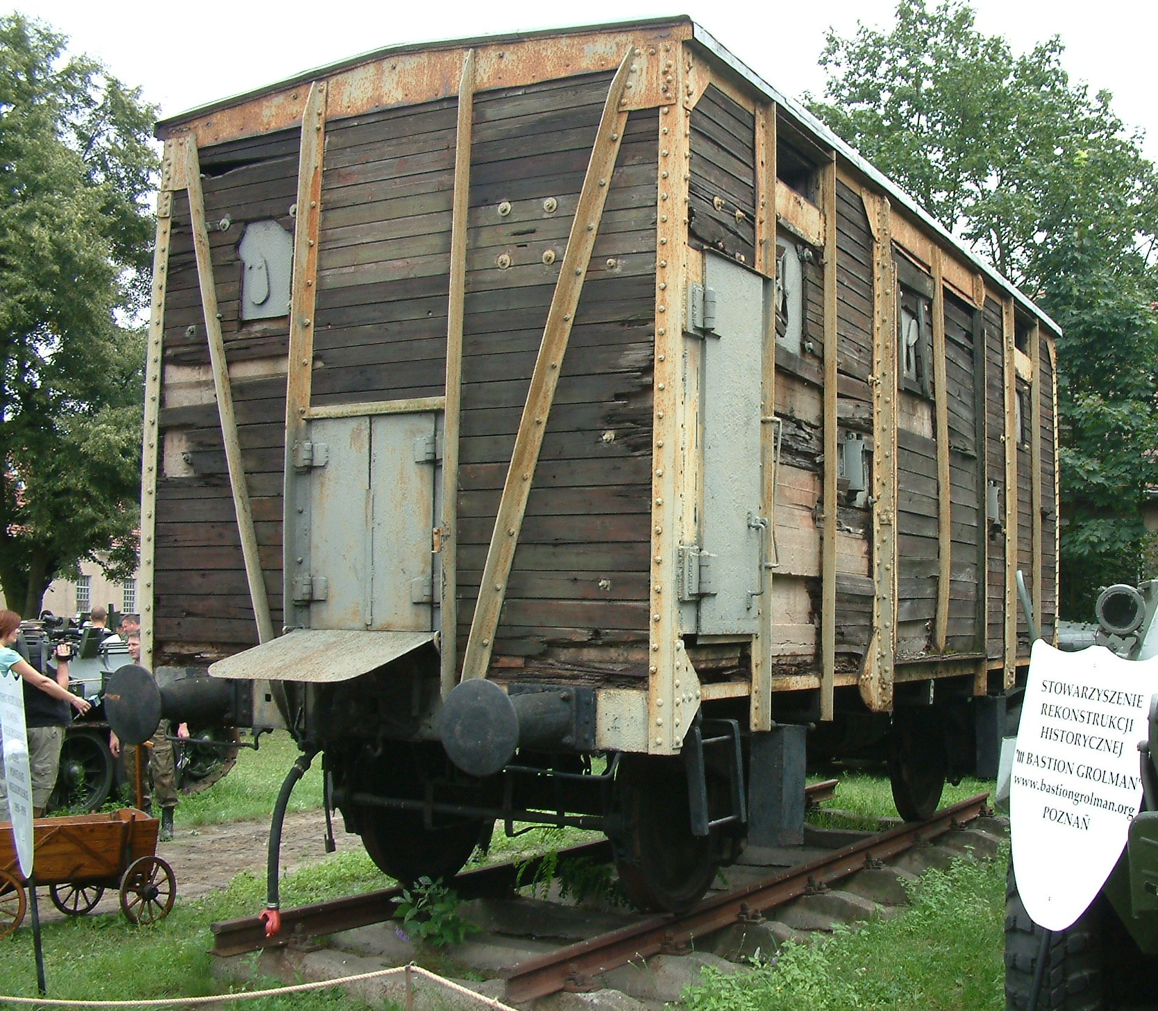 car of armoured train "Poznańczyk" used in world war I, Greater Poland Uprising and world war II